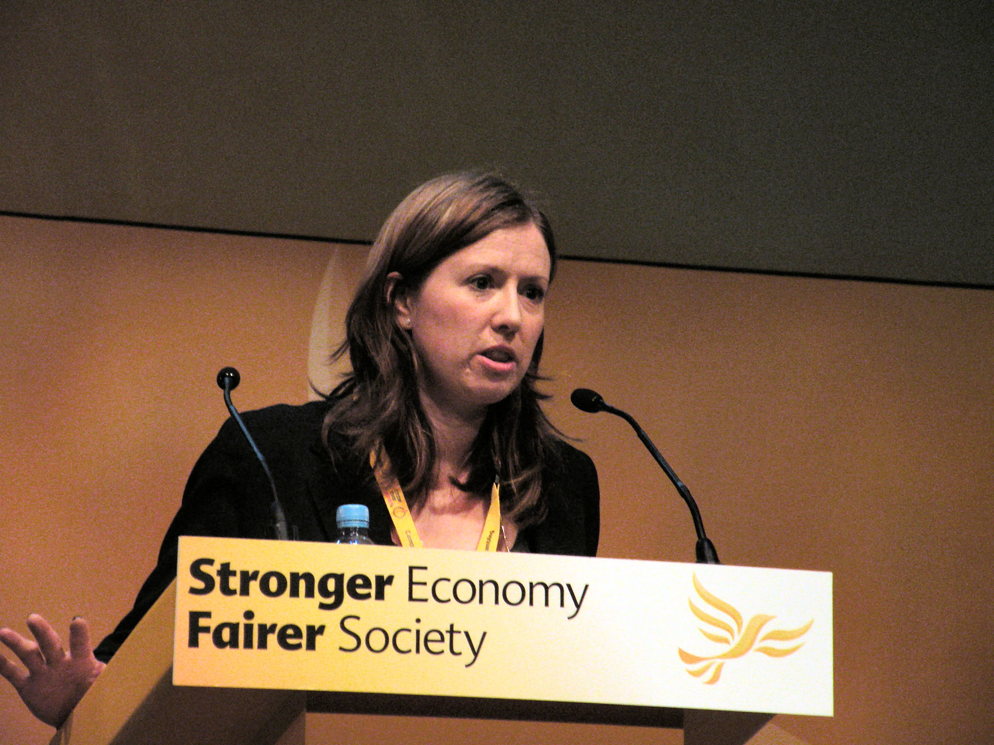 Rebecca Taylor M.E.P. addressing a Liberal Democrat conference in the Clyde Auditorium, Glasgow.